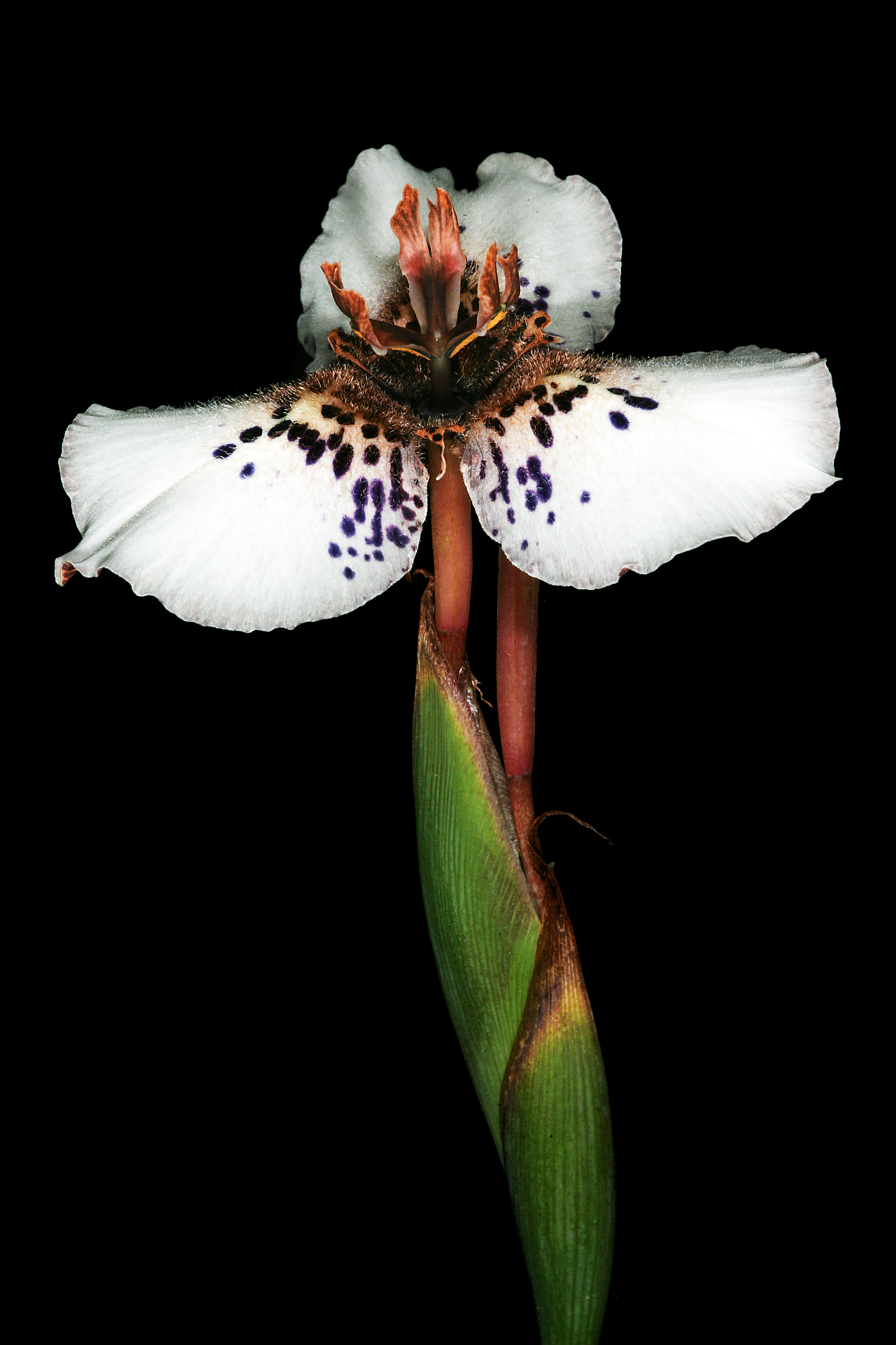 Moraea atropunctata, flower; Caledon Wild Flower Show, Caledon, Western Cape, South Africa